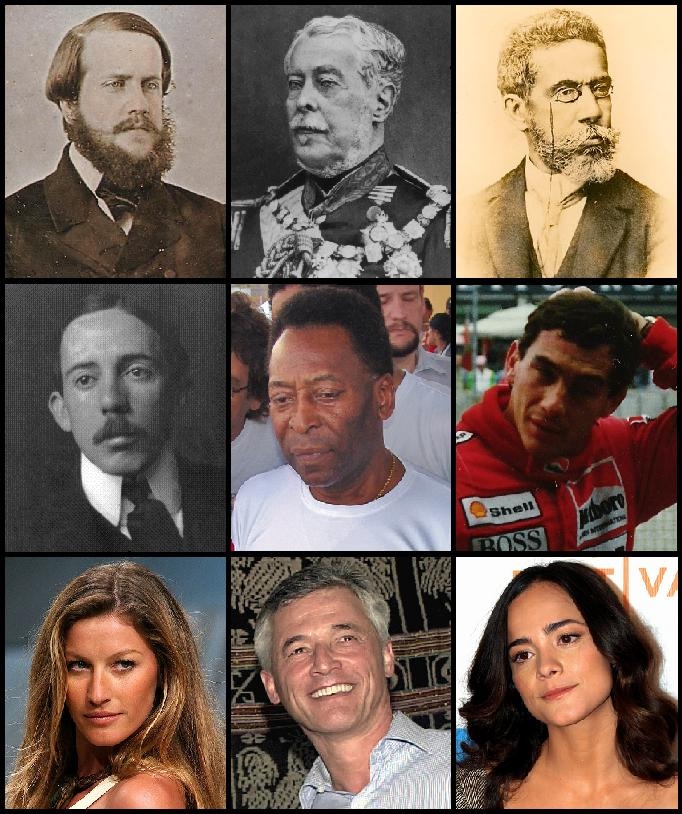 Compilation of pictues of renowned Brazilians from 19th, 20th and 21st Centuries (Emperor Pedro II (Monarch), Duke of Caxias (Military), Machado de Assis (Writer), Santos-Dumont (Inventor), Pelé (Soccer player), Ayrton Senna (Racing car driver), Gisele Bündchen (Model), Sérgio Vieira de Mello (Diplomat) and Alice Braga (Actress).